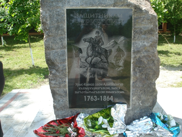 The statue of the Circassians-Russian War which started in 1763 and ended in 1864, and as a result of this war, Circassia was completly occupied by Tsar Russia. - Adygheya Republic